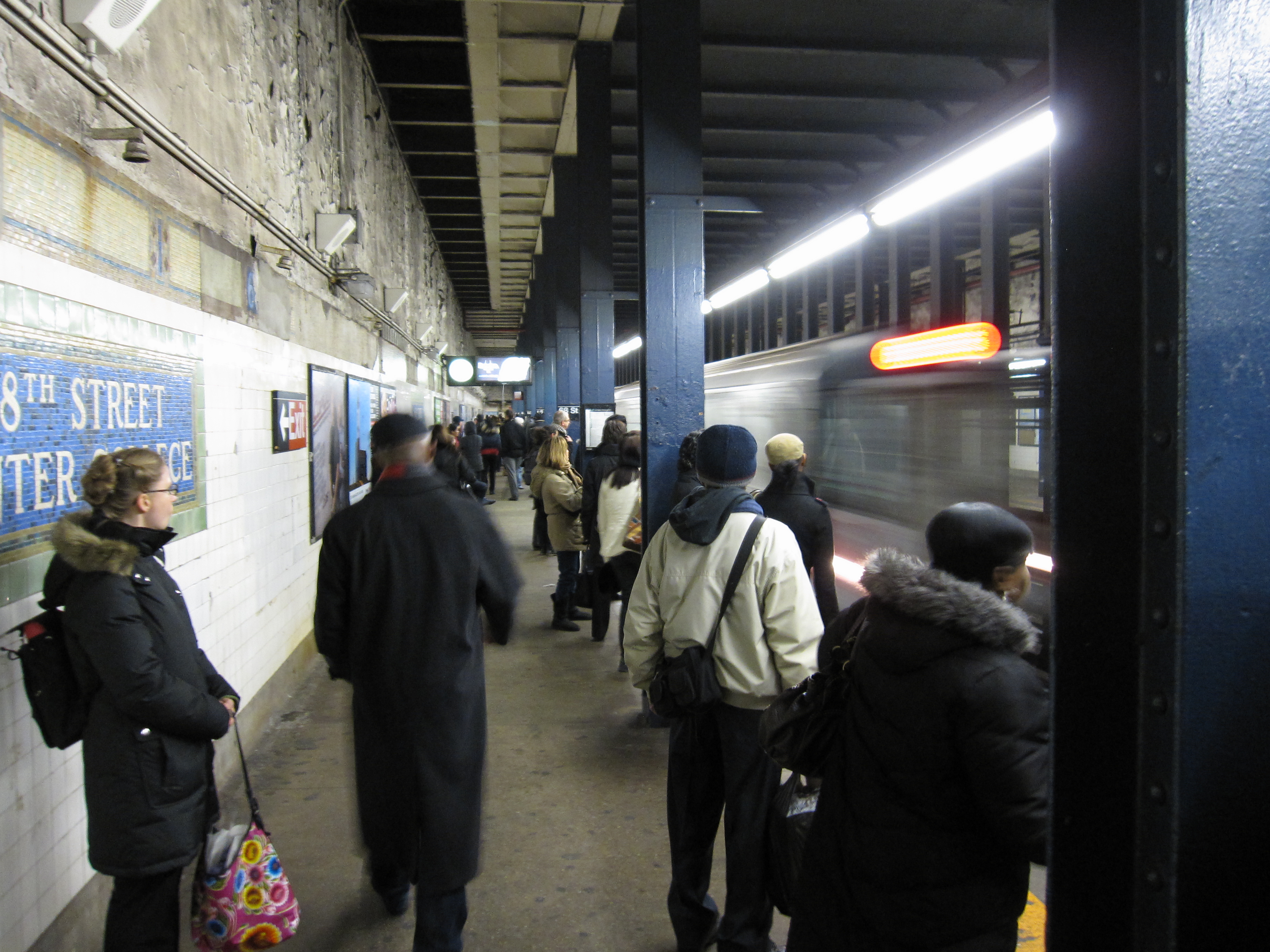 68th Street – Hunter College (IRT Lexington Avenue Line)